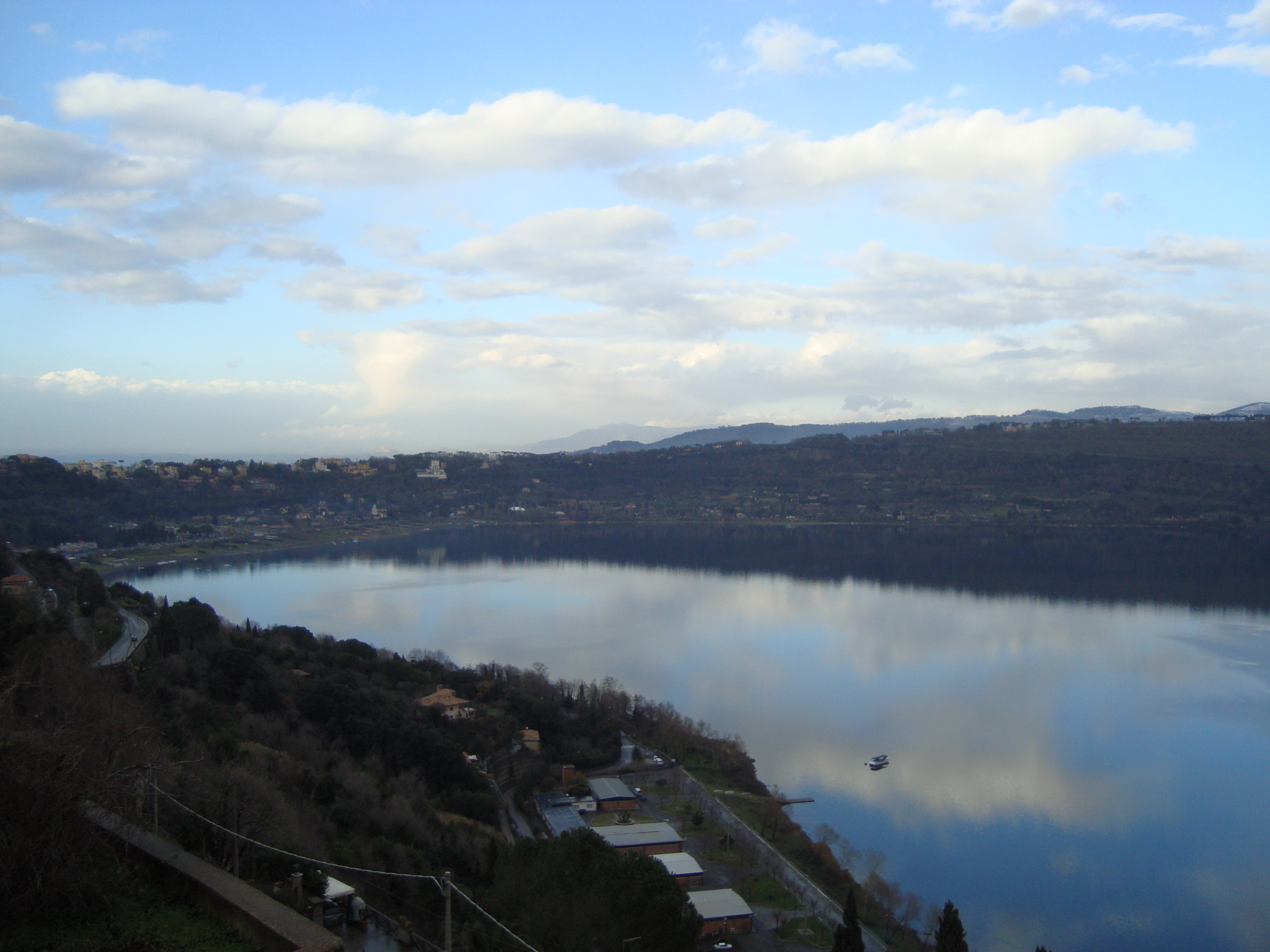 The Lake Albano viewed from Castel Gandolfo